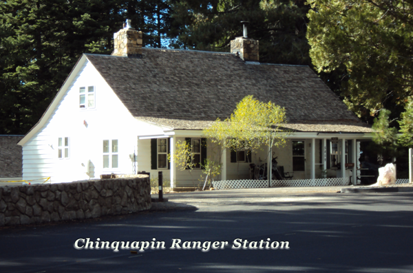 Chinquapin Ranger Station and historic fire engine garage — in Yosemite National Park, California.